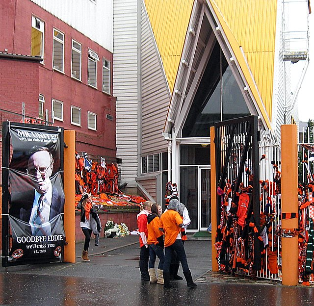 Dundee United FC (1) Football supporters pay their respects to the late Eddie Thomson who was chairman of Dundee United FC.